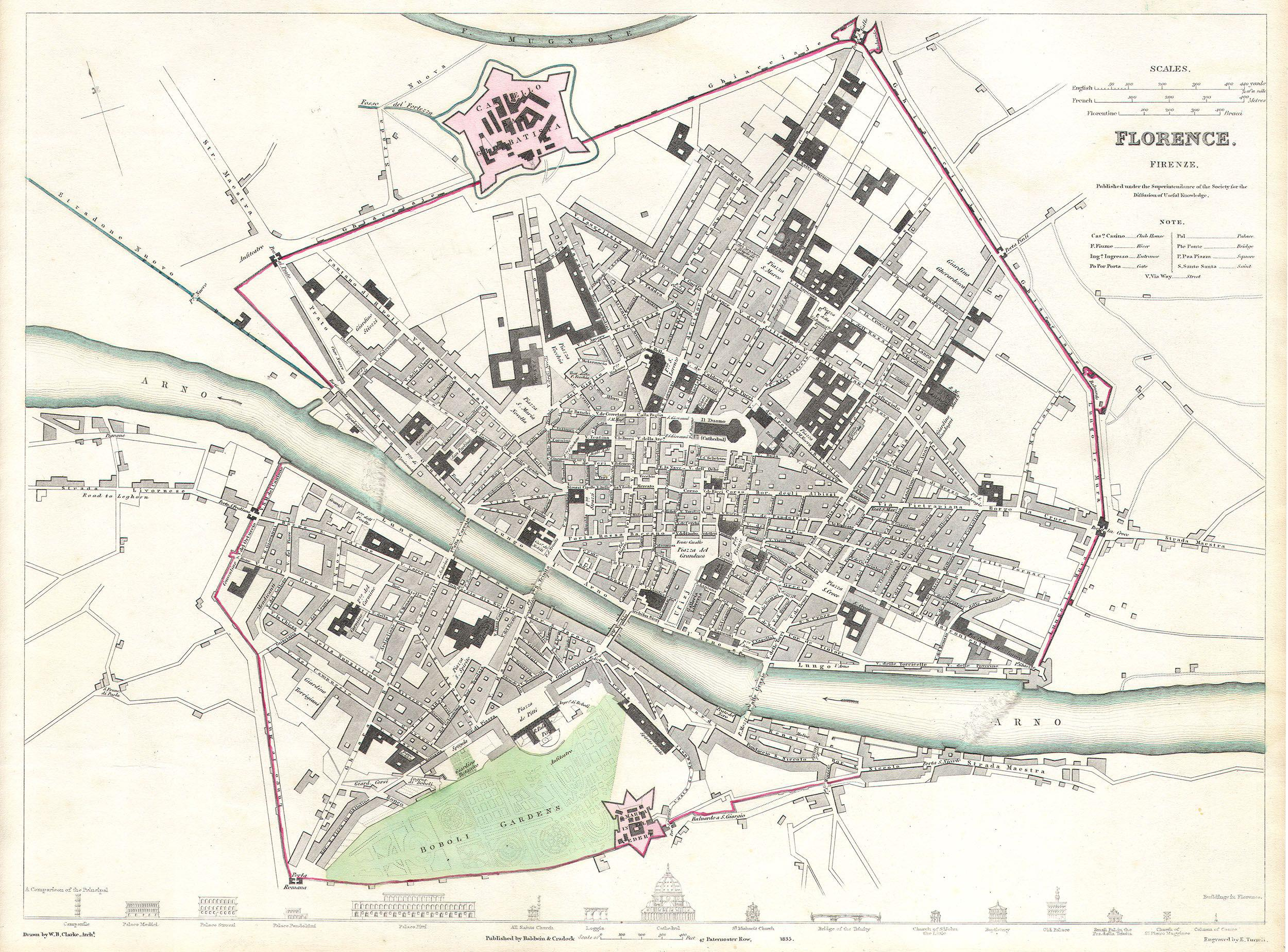 This map is a steel plate engraving, dating to 1835 by the Society for the Diffusion of Useful Knowledge, S.D.U.K. It represents the city of Florence or Firenze, Italy. Depicts the old city of Firenze in considerable detail and give attention to most important streets, buildings and monuments. Along the bottom of the map there appears drawings of the facades of 16 Florentine structures entitled A comparison of the principal buildings in Florence. Published for the Society for the Diffusion of Useful Knowledge, by Baldwin and Cradock of Paternoster Row, London, 1835.